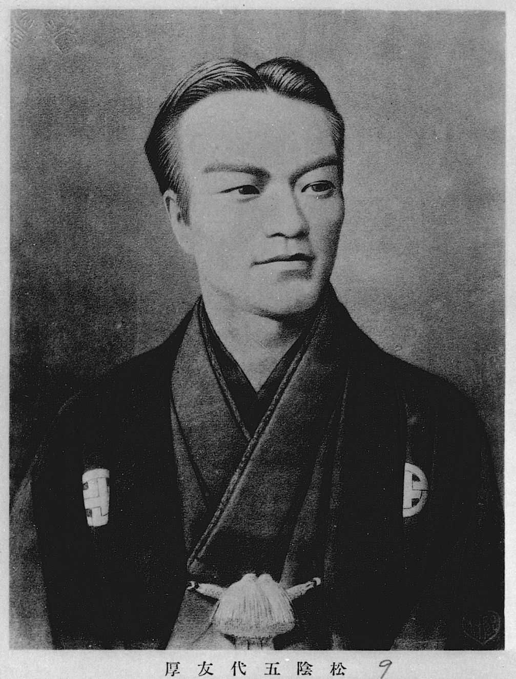 Portrait of Godai Tomoatsu (1836 – 1885)